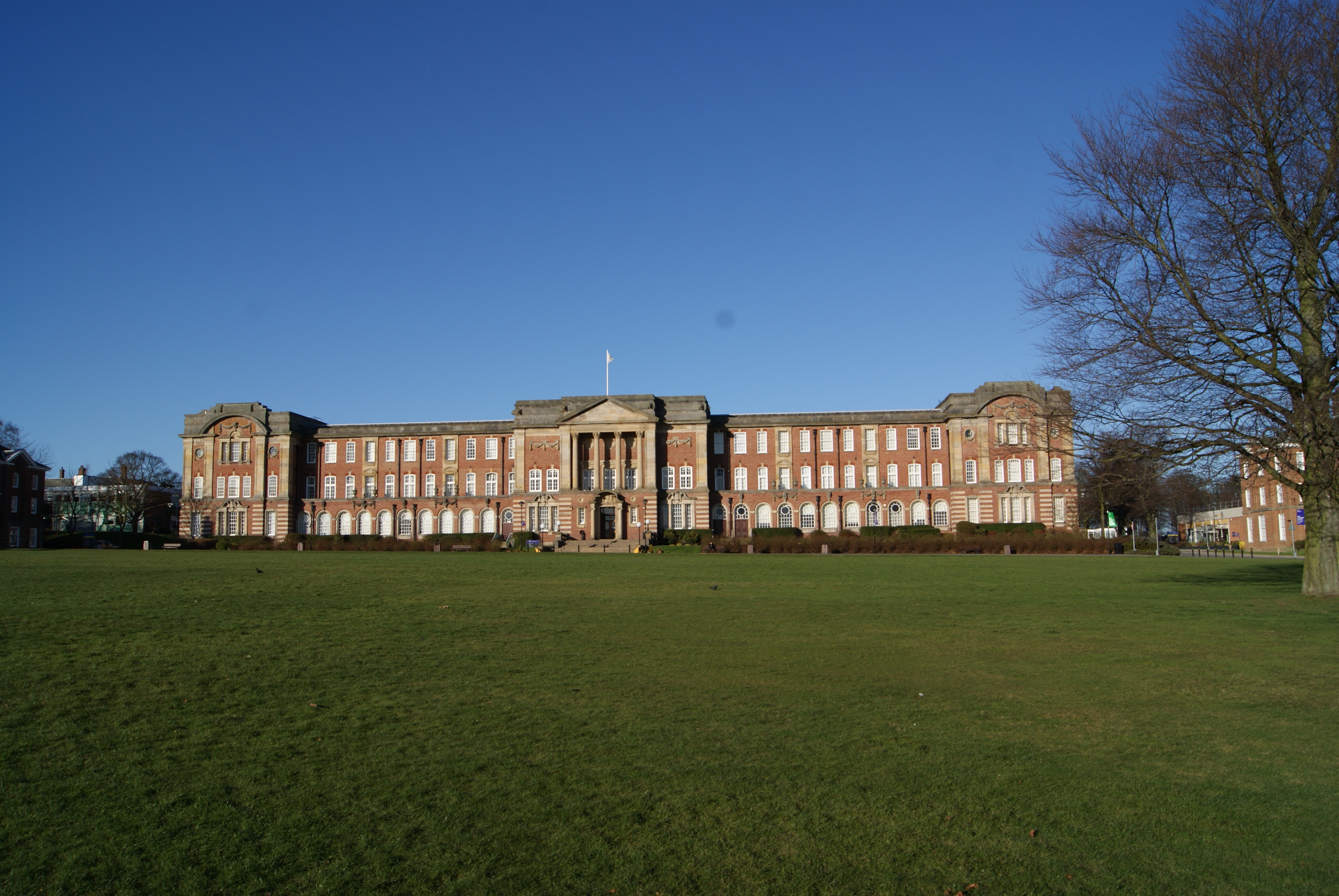 James Graham building at the Leeds Metropolitan University, Beckett Park Campus, Headingley. Taken on the afternoon of Saturday the 30th of January 2010.